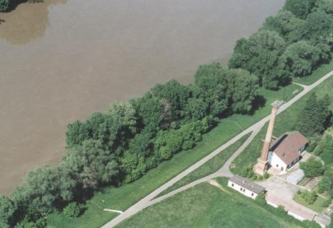 Tiszabercel, Hungary, aerialphotgraphy